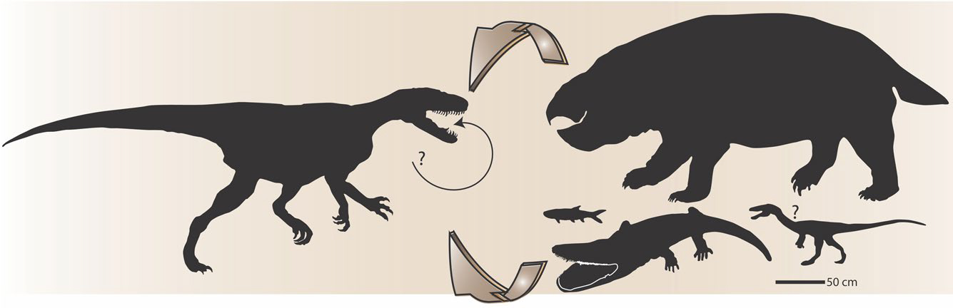 Smok wawelski together with prey animals inferred from coprolite contents and bones with bite marks. Arrows indicate predator-prey relations, based on: a small tooth of Theropoda indet. in coprolite ZPAL V.33/344; tooth marks on dicynodont bones and putative dicynodont bones in coprolites; teeth of S. wawelski in several coprolites; temnospondyl dermal bone in coprolite ZPAL V.33/341; fish remains in ZPAL V.33/600.